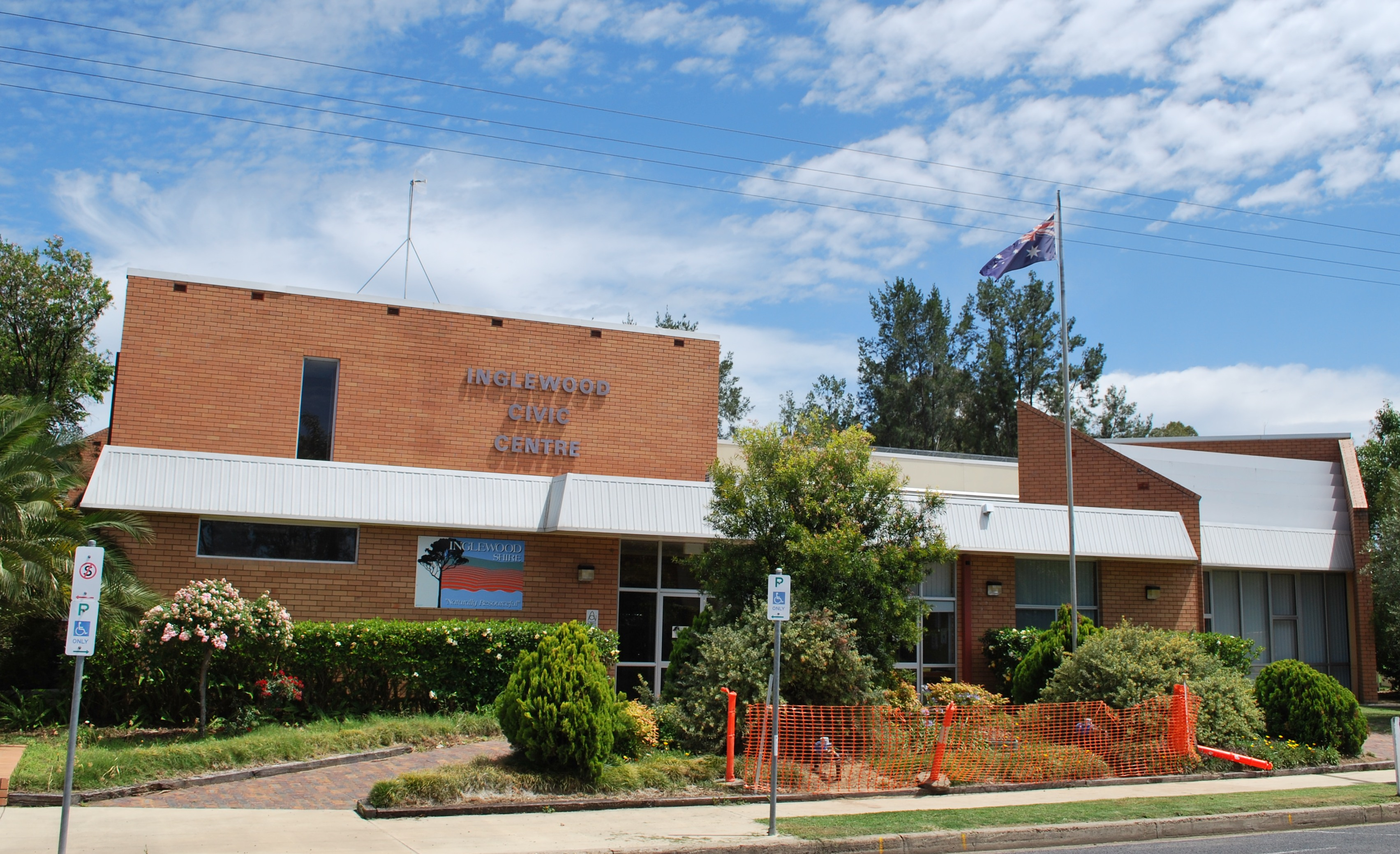 Public hall and former offices of Shire of Inglewood at Inglewood, Queensland